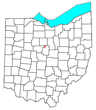 Locator map of the unincorporated community of Iberia in Morrow County, Ohio, United States.